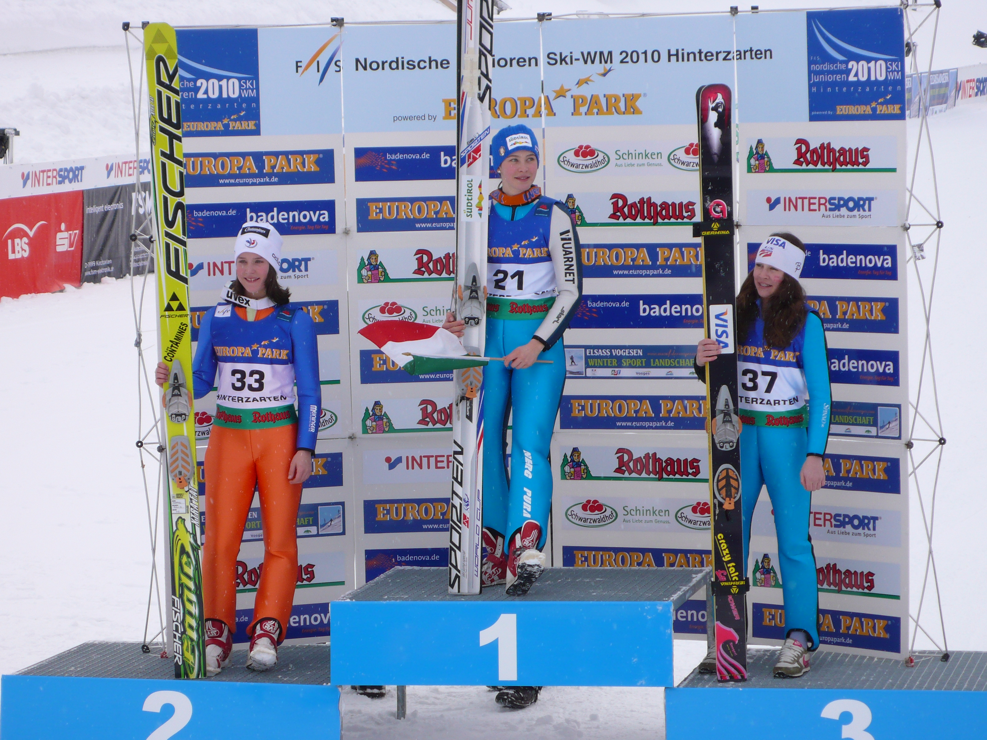 Elena Runggaldier, Coline Mattel and Sarah Hendrickson : medalists of World Junior Championship of Nordic Skiing in Hinterzarten on the 2010-01-30.